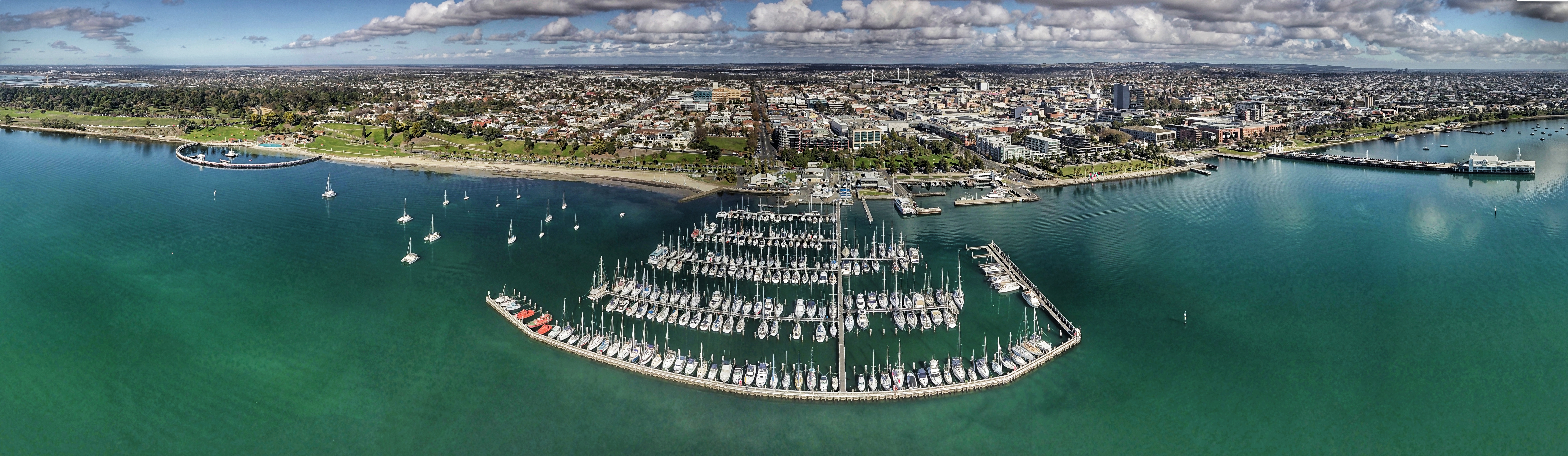 Aerial perspective of Geelong and the Royal Geelong Yacht Club in the foreground